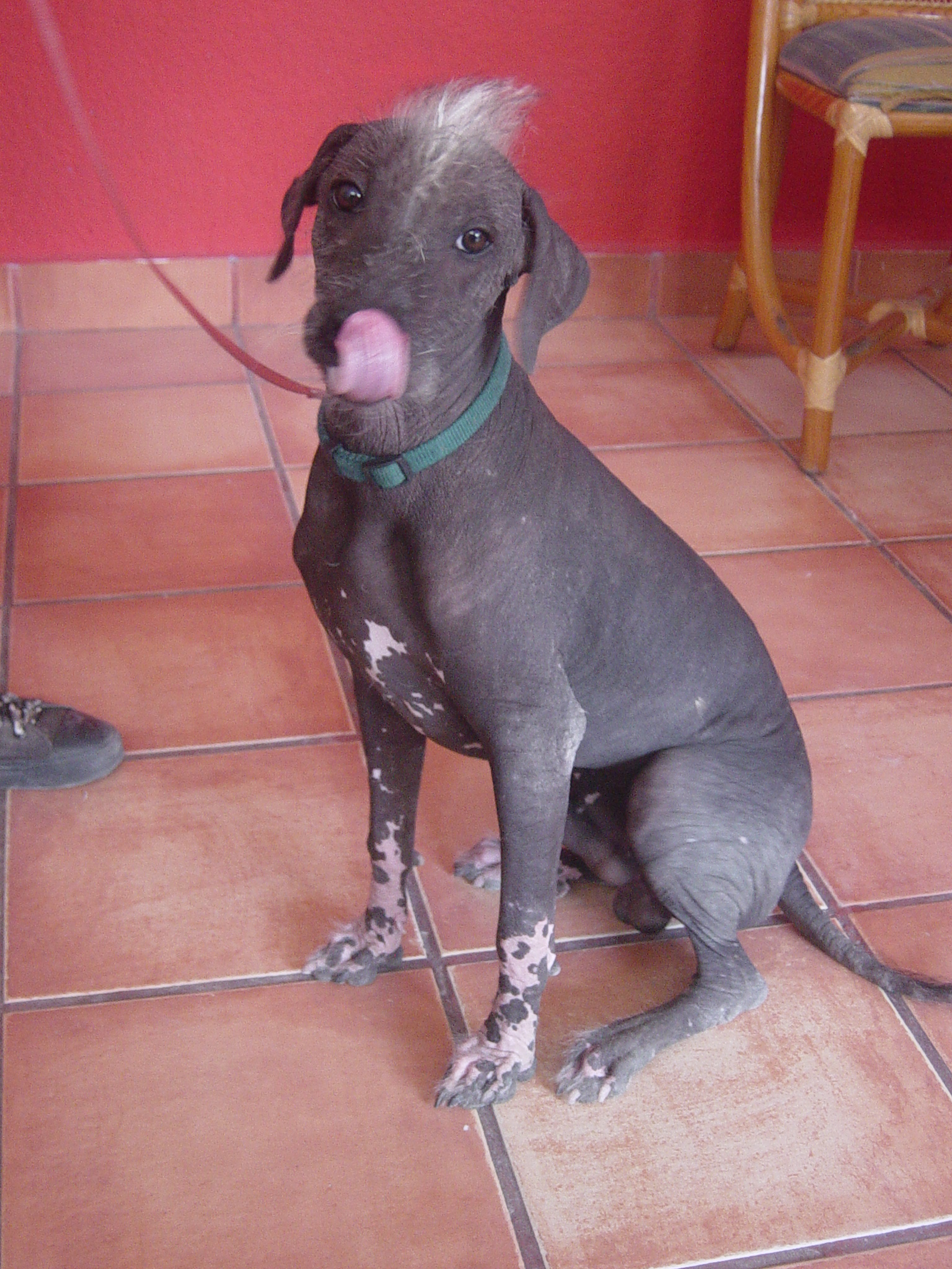 A Xoloitzcuintle (Mexican Hairless Dog).